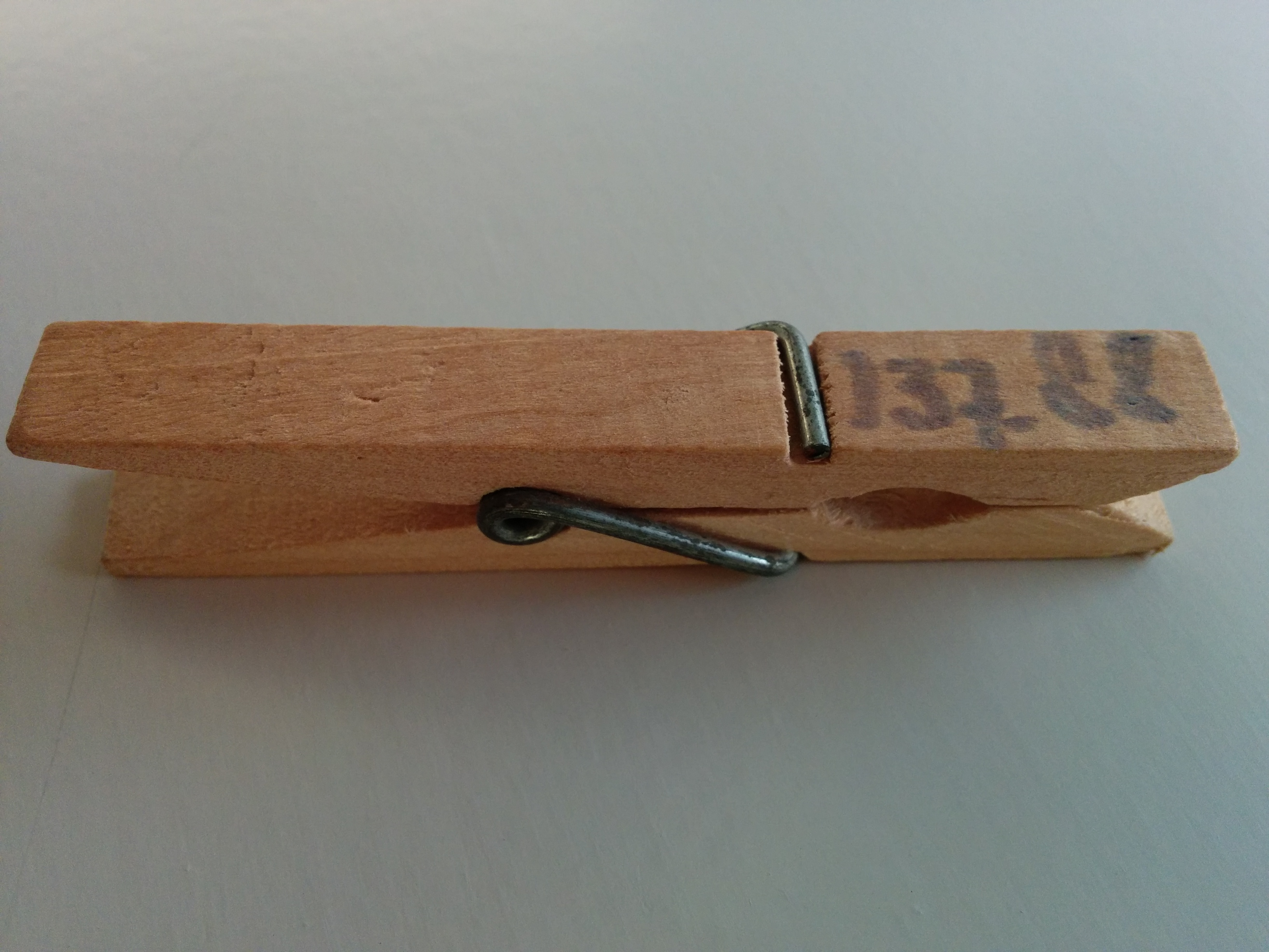 This peg is an actual peg used for the first implementation of Peg DHCP (later described in RFC2322) at the Hacking in Progress event in 1997.